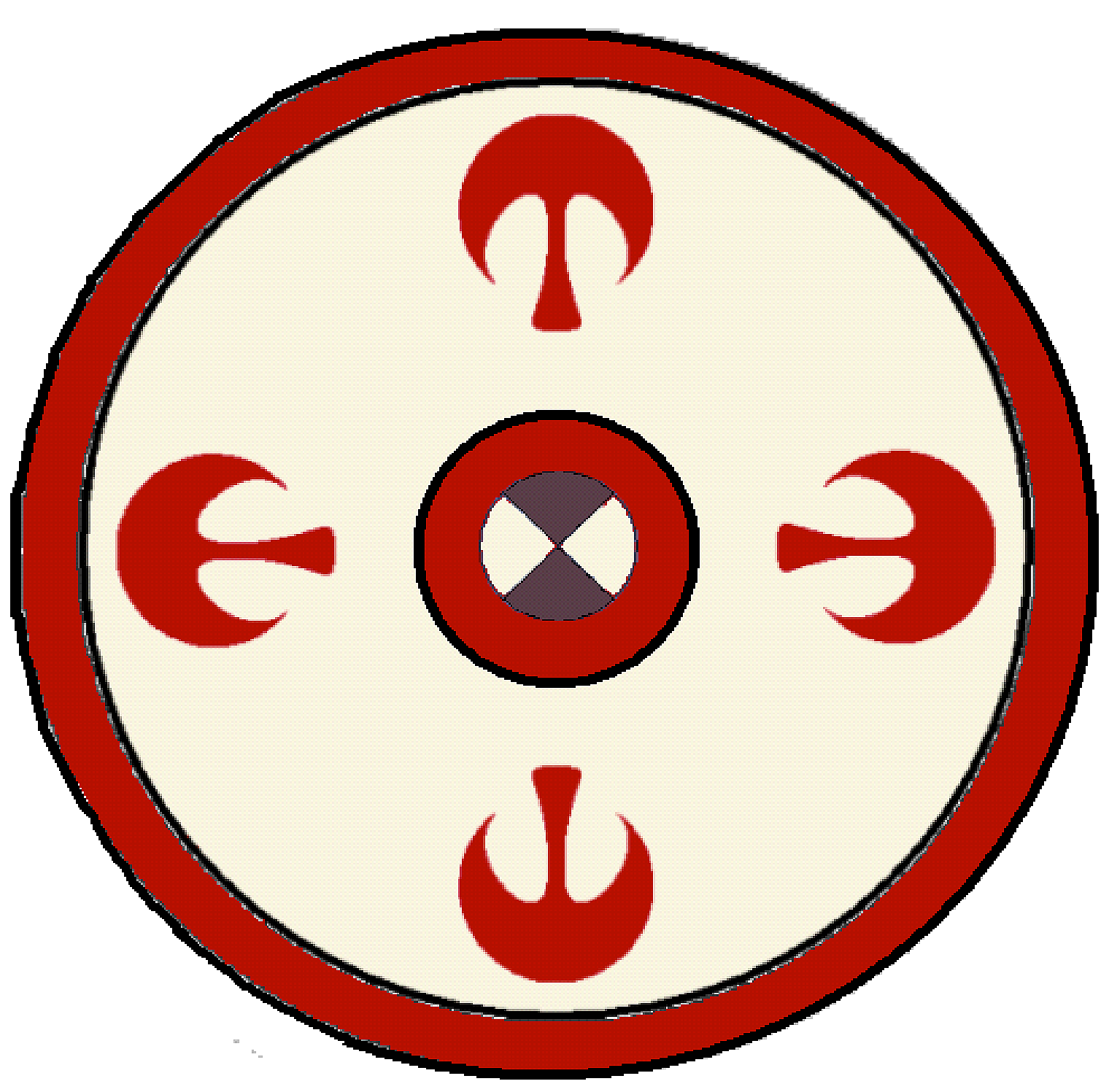 Shield pattern o.t. Vesontes, one of the legiones comitatenses units listed in the Magister Peditum infantry roster, assigned to the army o.t. Comes Hispaniarum, Notitia Dignitatum, 5th century (Bodleian Manuscript)